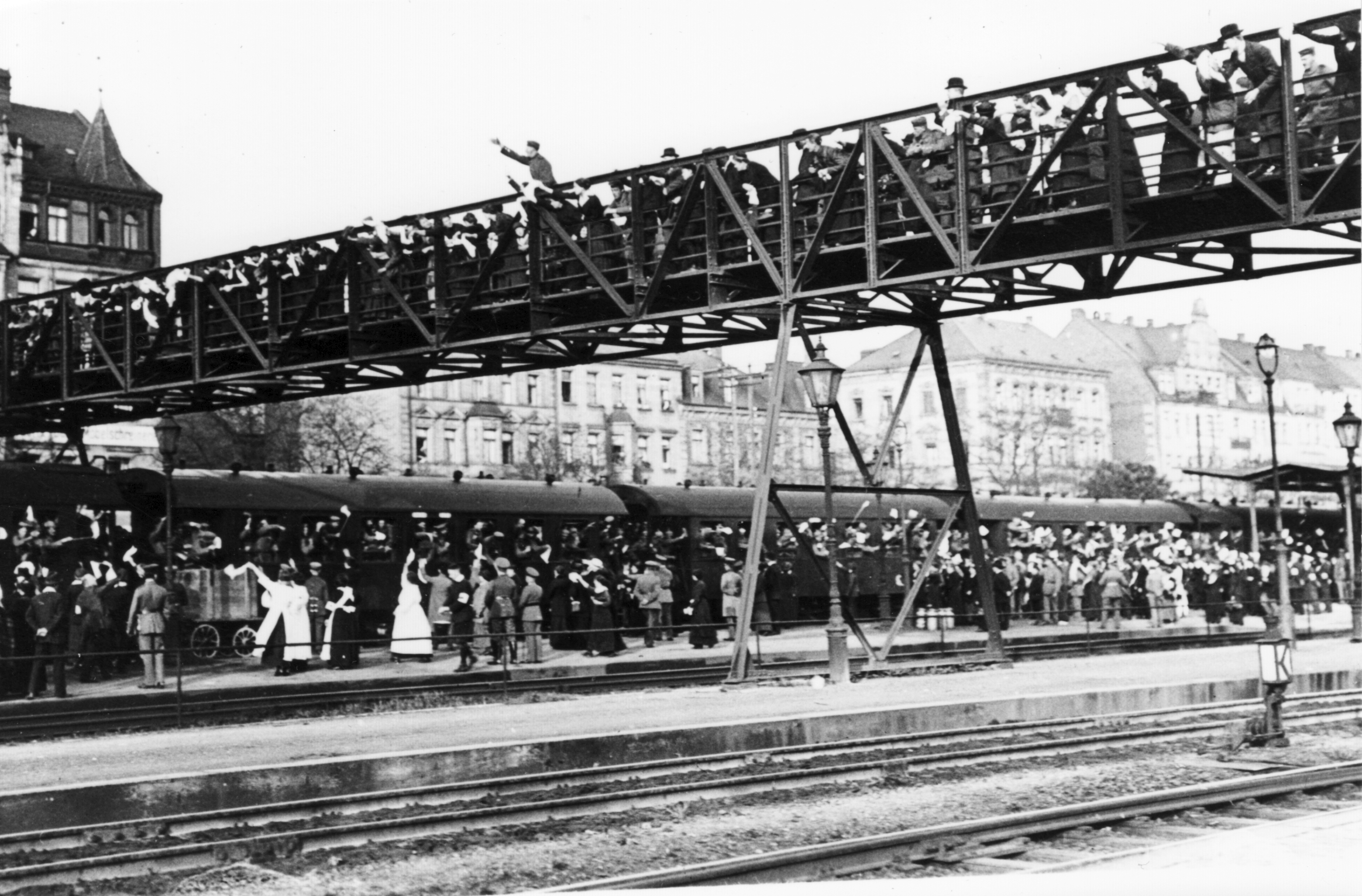 World War I : Troops leaving Fürth main railway station (Germany/Bavaria), 07./08. August 1914.